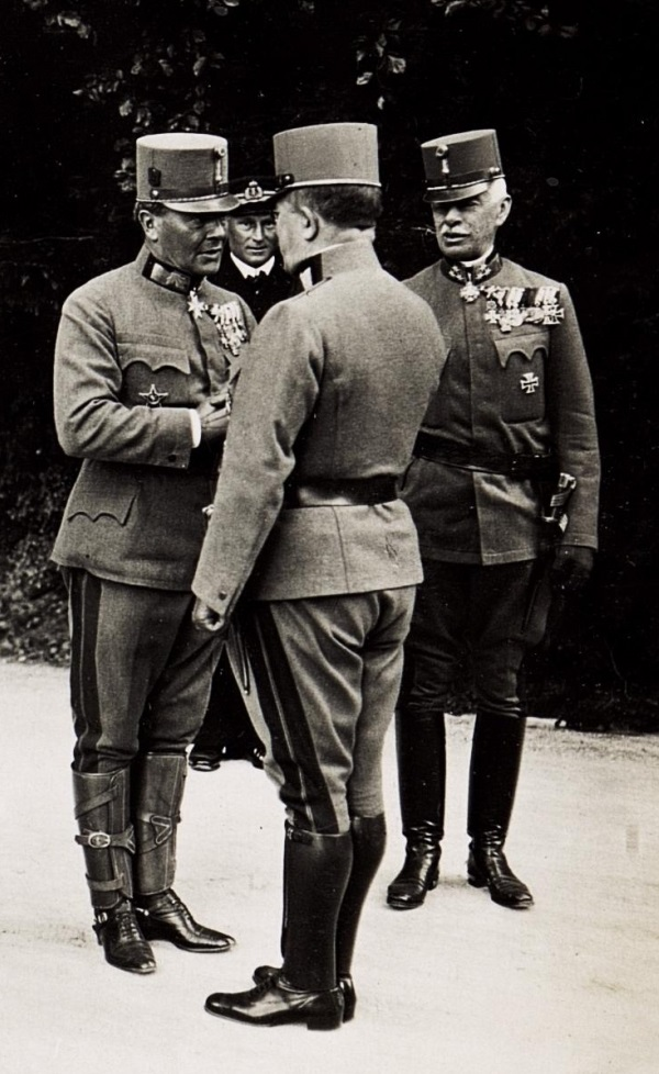 180th investiture in the history of the Military Order of Maria Theresa on 17 August 1917 at Schloss Wartholz. Left to right: Field Marshal Hermann Kövess von Kövessháza (speaking with Arz von Straußenburg) — Lieutenant Commander Emmerich Schonta von Seedank — General of the Infantry Artur Arz von Straußenburg — Minister of War & General of the Infantry Rudolf Stöger-Steiner von Steinstätten.